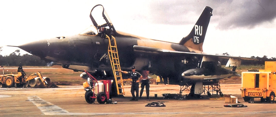 357th Tactical Fighter Squadron - Republic F-105D-25-RE Thunderchief - 61-0176 Korat 1969